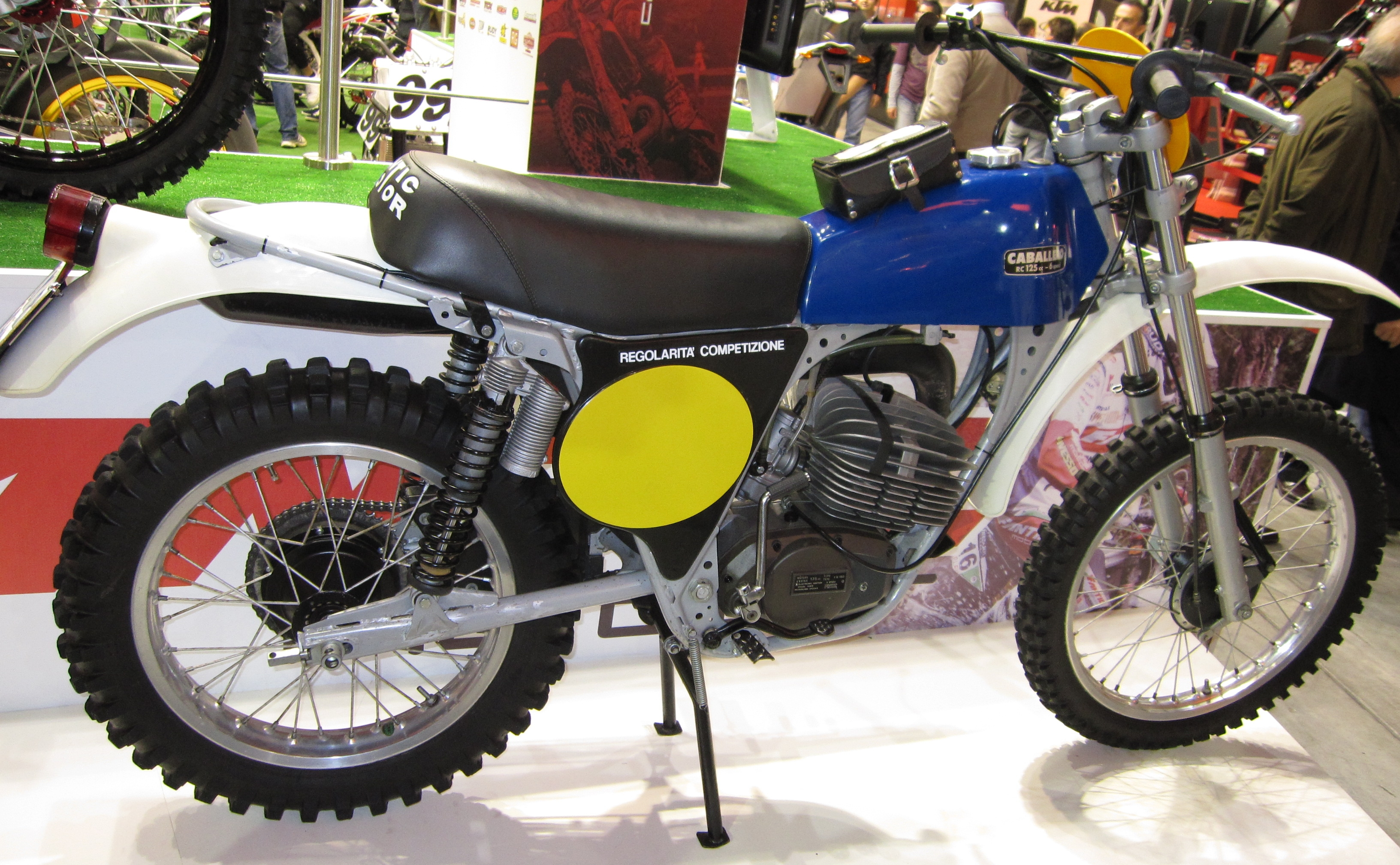 Fantic Motor Caballero 125 "regolarità competizione" ("enduro racing"), 2 stroke, 6 speed gearbox. At the EICMA Milan Motorcycle Show 2011